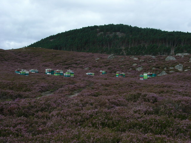 Colourful Beehives Northwest towards a group of colourful heather honey beehives with Ripe Hill as a background.